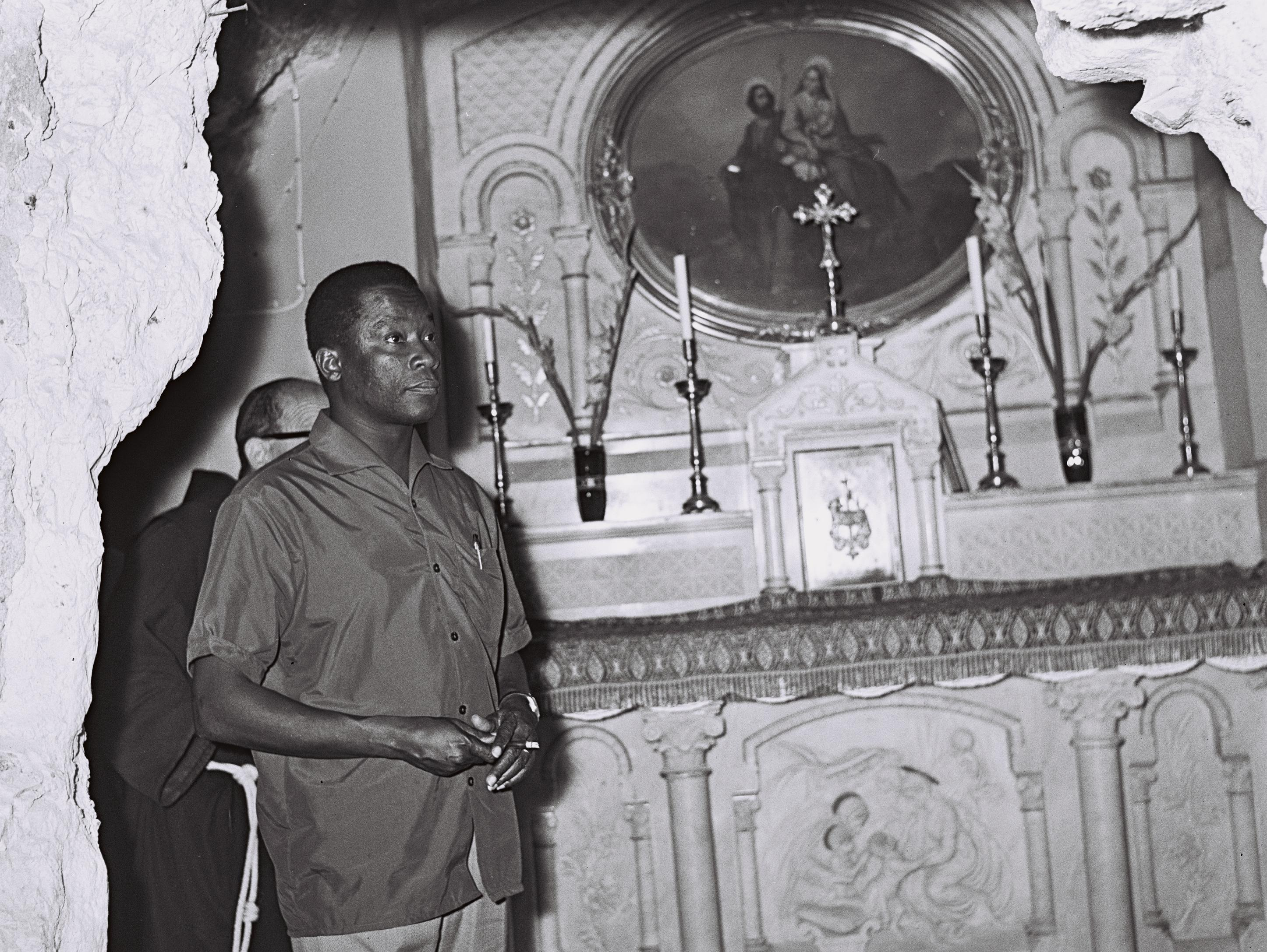 VICE-PREMIER OF CHAD, GABRIEL LISETTE, VISITING THE CHURCH OF ANNOUNCIATION IN NAZARETH